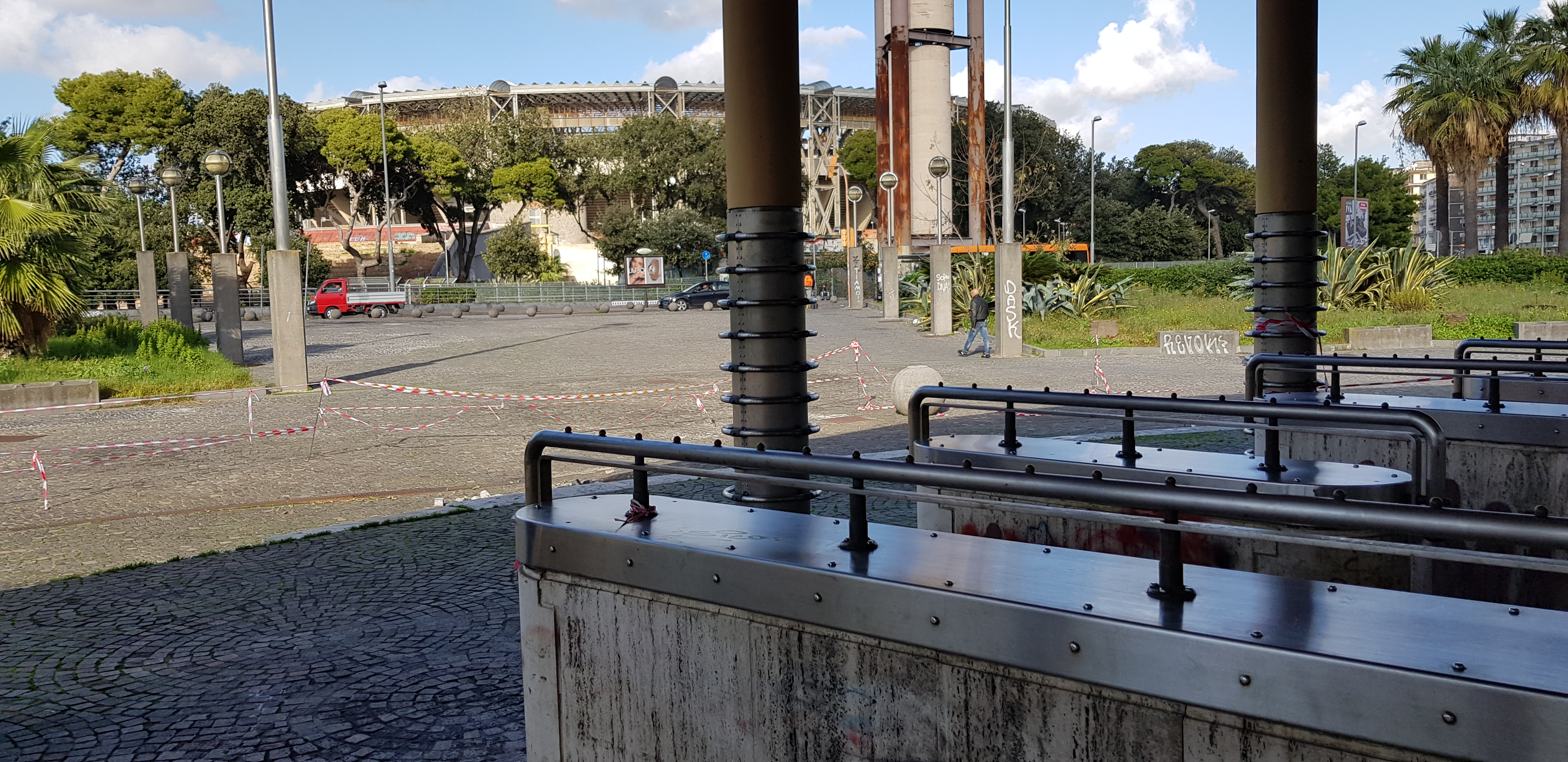 A view of "San Paolo" Stadium from the Cumana railway's Mostra station, Naples (Italy), 2019.